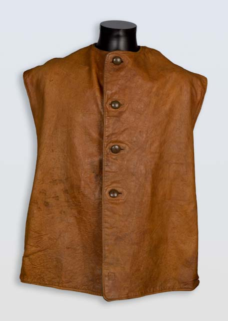 Leather jerkins such as this were standard issue to British soldiers in cold weather, being preferable to a greatcoat in that they left the arms free for movement. When worn by officers, they would also make them appear less distinct from their men, and less of a target for snipers. This example was worn by a Manx officer, Second Lieutenant Roy Corlett of Douglas. Corlett was wounded and taken prisoner of war during the Battle of the Somme, in November 1916. As the weather that day would have been cold, there is a strong possibility that he was wearing this garment at the time.